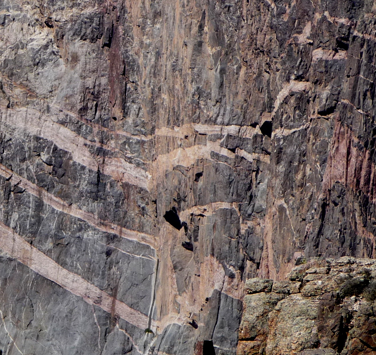 See file name.